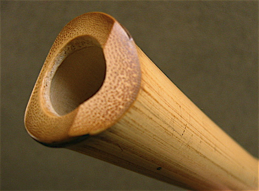 The all natural utaguchi blowing edge of a Hocchiku style Shakuhachi.